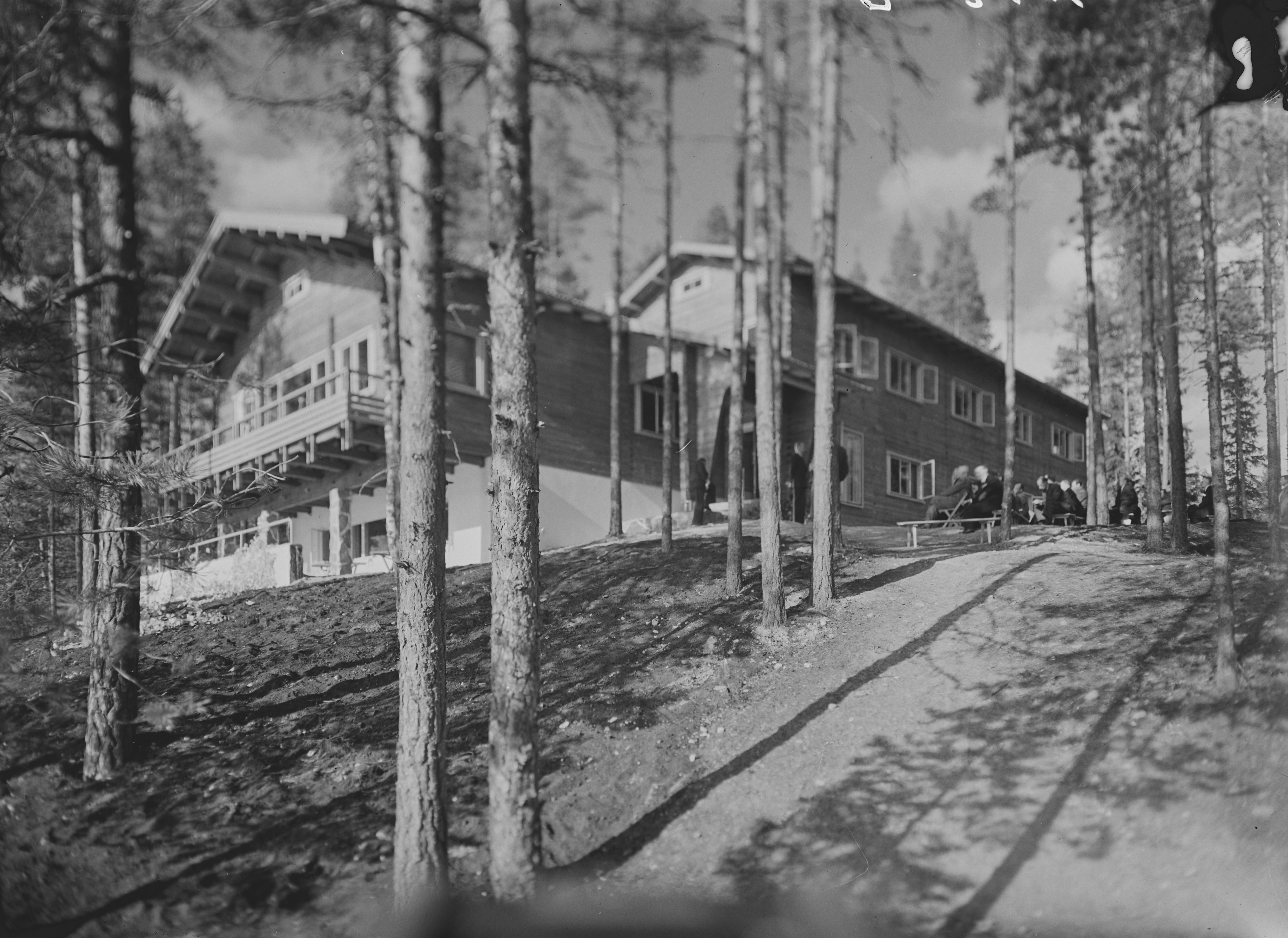 Inauguration of the Eerikkilä Sports Academy, Tammela, Finland.